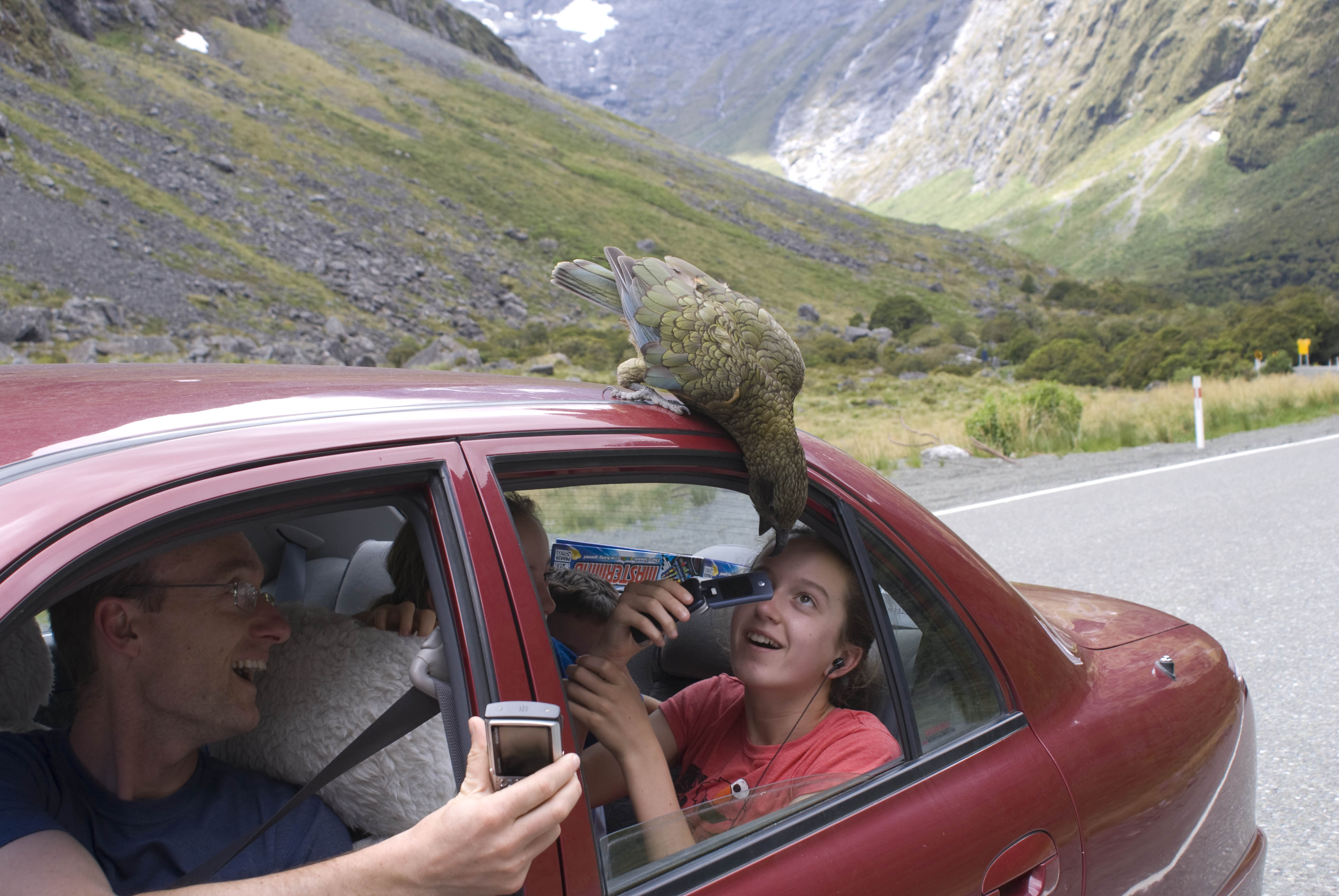 A kea investigates a carload of tourists.